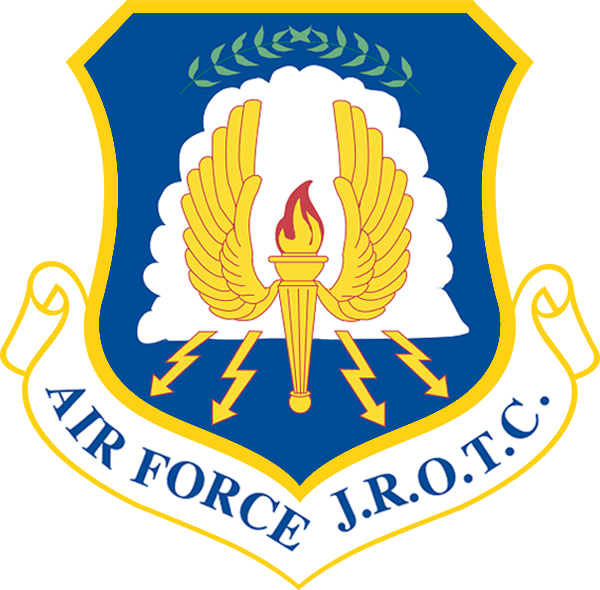 Photo design courtesy of the United States Air Force, U.S. Department of Defense. Summary[edit] Air Force Junior Reserve Officer Training Corps emblem